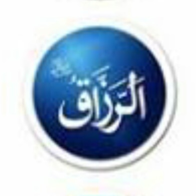 Ar-Razzāq / The Provider is a name of Allah, is a name of God in Islam.